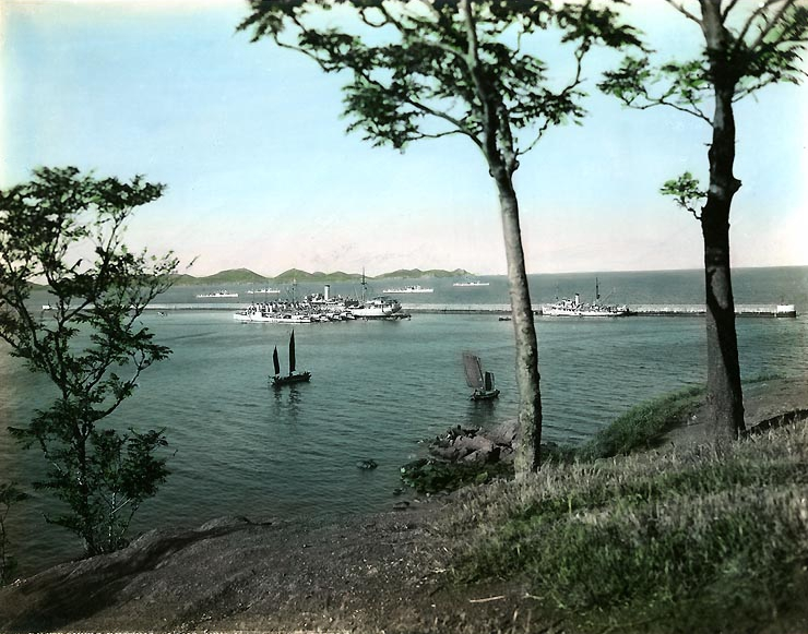 U.S. Navy warships inside and outside the breakwater at Yantai (formerly known as Chefoo or Chih-fou), China, circa the later 1930s. Among the ships present are the destroyer tender USS Black Hawk (AD-9), in left center, with a nest of four destroyers alongside: USS Whipple (DD-217) is the outboard unit of these four. USS Heron (AM-10) is alongside the breakwater, at right, with a Grumman JF Duck amphibian airplane on her fantail. Another JF is floating inside the breakwater, toward the left. Two Chinese sampans are under sail in the center foreground The four destroyers outside the breakwater are (from left to right): USS Stewart (DD-224), unidentified, USS Bulmer (DD-222) and USS Pillsbury (DD-227).